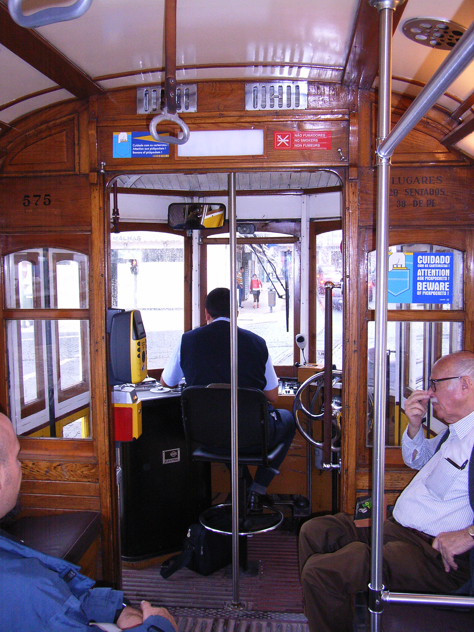 Interior of one of the small and old trams climbing up to the castle in Lisbon, Portugal